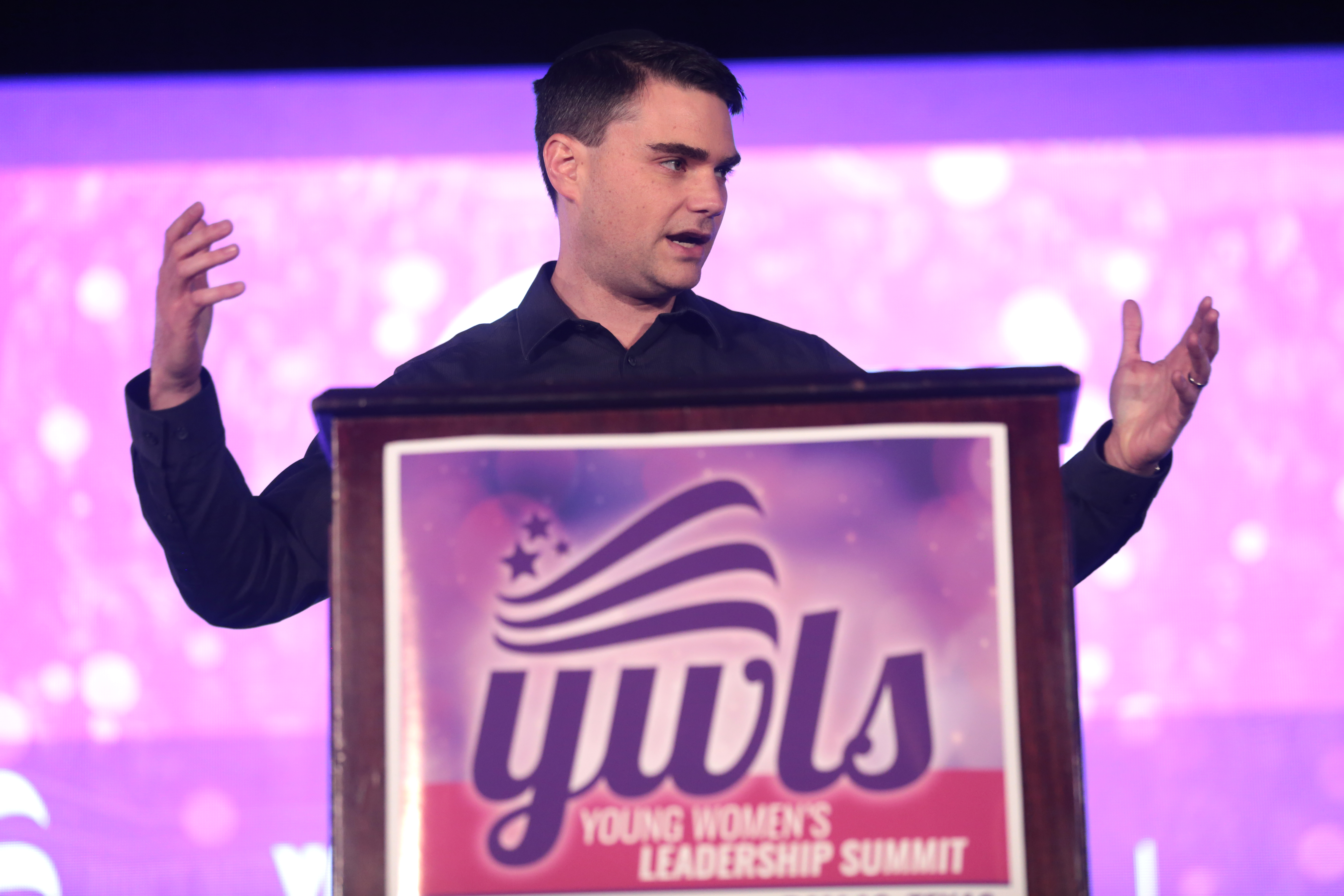 Ben Shapiro speaking with attendees at the 2018 Young Women's Leadership Summit hosted by Turning Point USA at the Hyatt Regency DFW Hotel in Dallas, Texas.